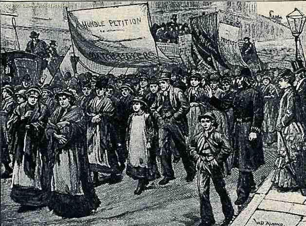 Procession of Match Workers to Westminster, July 1888.